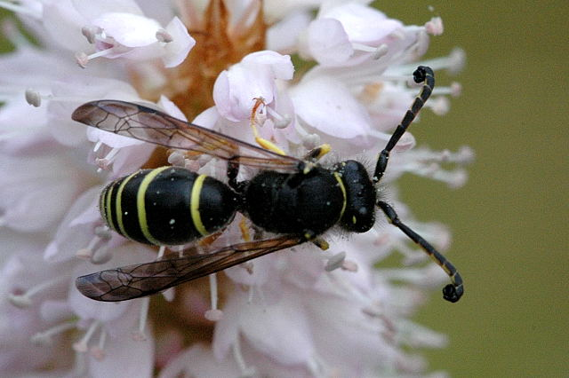 Odynerus spinipes from Commanster, Belgian High Ardennes .